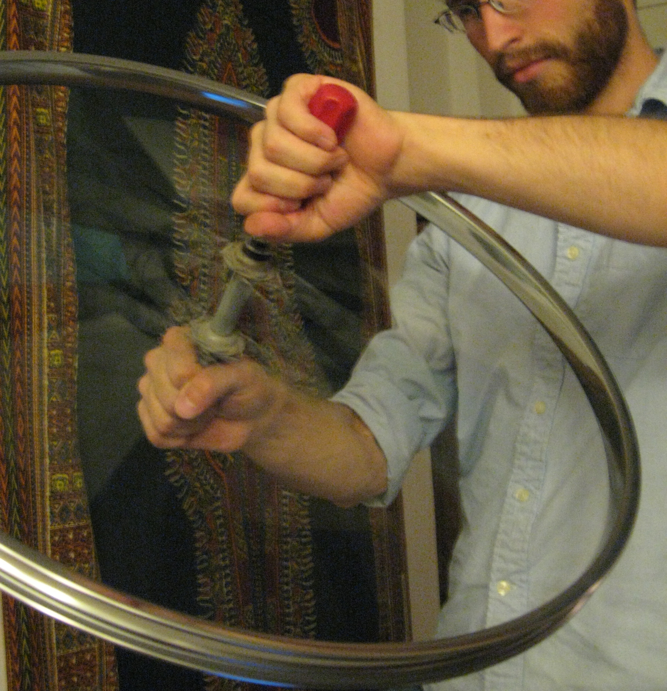 Astrowheeling as a meditative exercise.